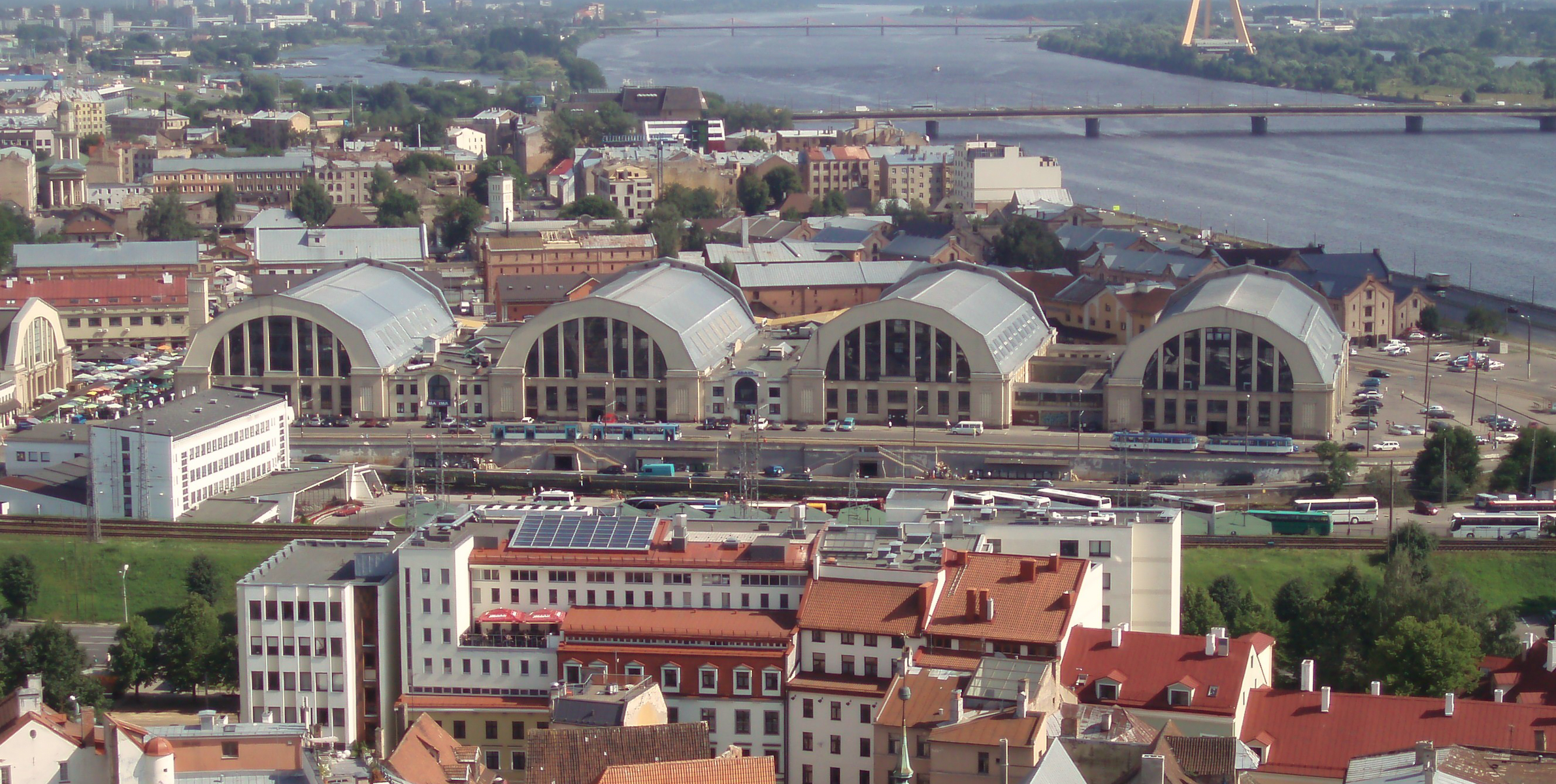 The Central Market Hall in the city of Riga, Latvia.